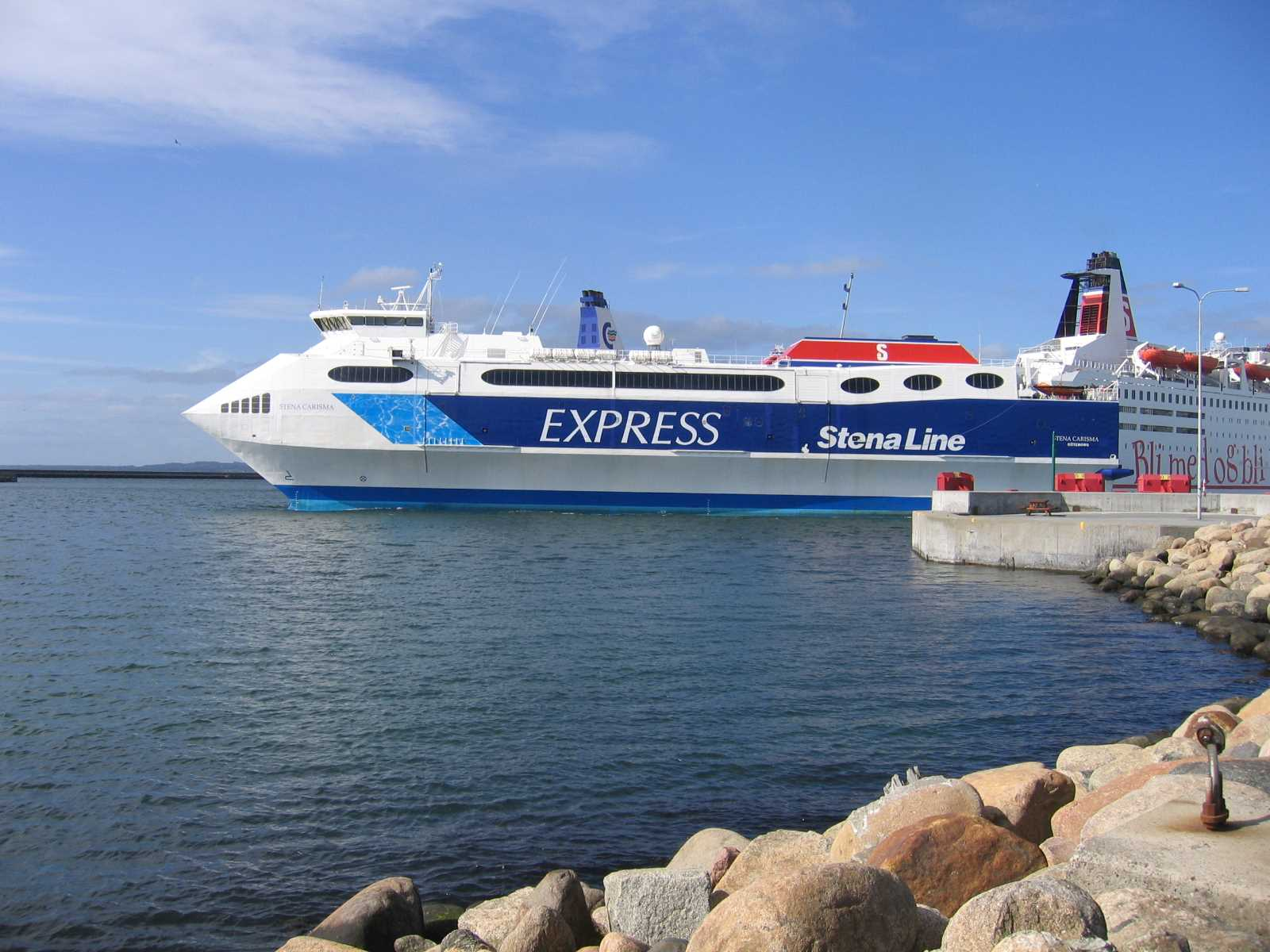 Stena Carisma in the harbour of Frederikshavn, Denmark. In the background M/S Stena Saga and M/S Color Festival